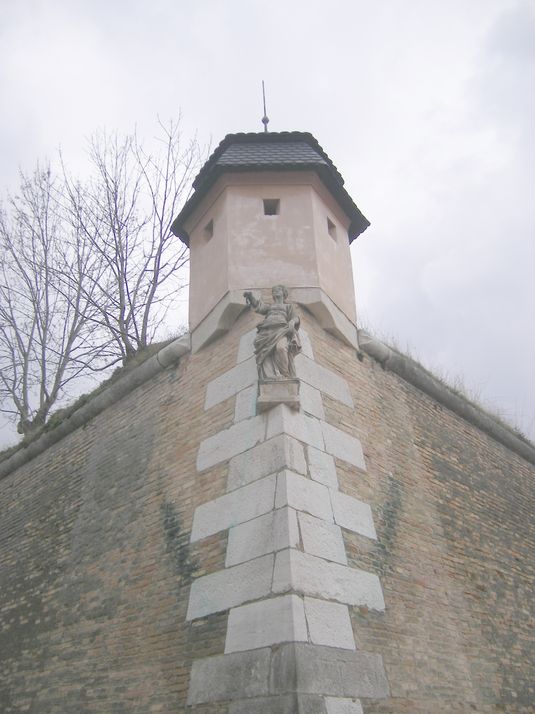 Komárno - statue of the Kőszűz, symbol of the Komárom Fortress. The inscripton (in Latin) reads: "NEC ARTE, NEC MARTE" which means "Not by trick, Not by force" [can be this fortress captured]